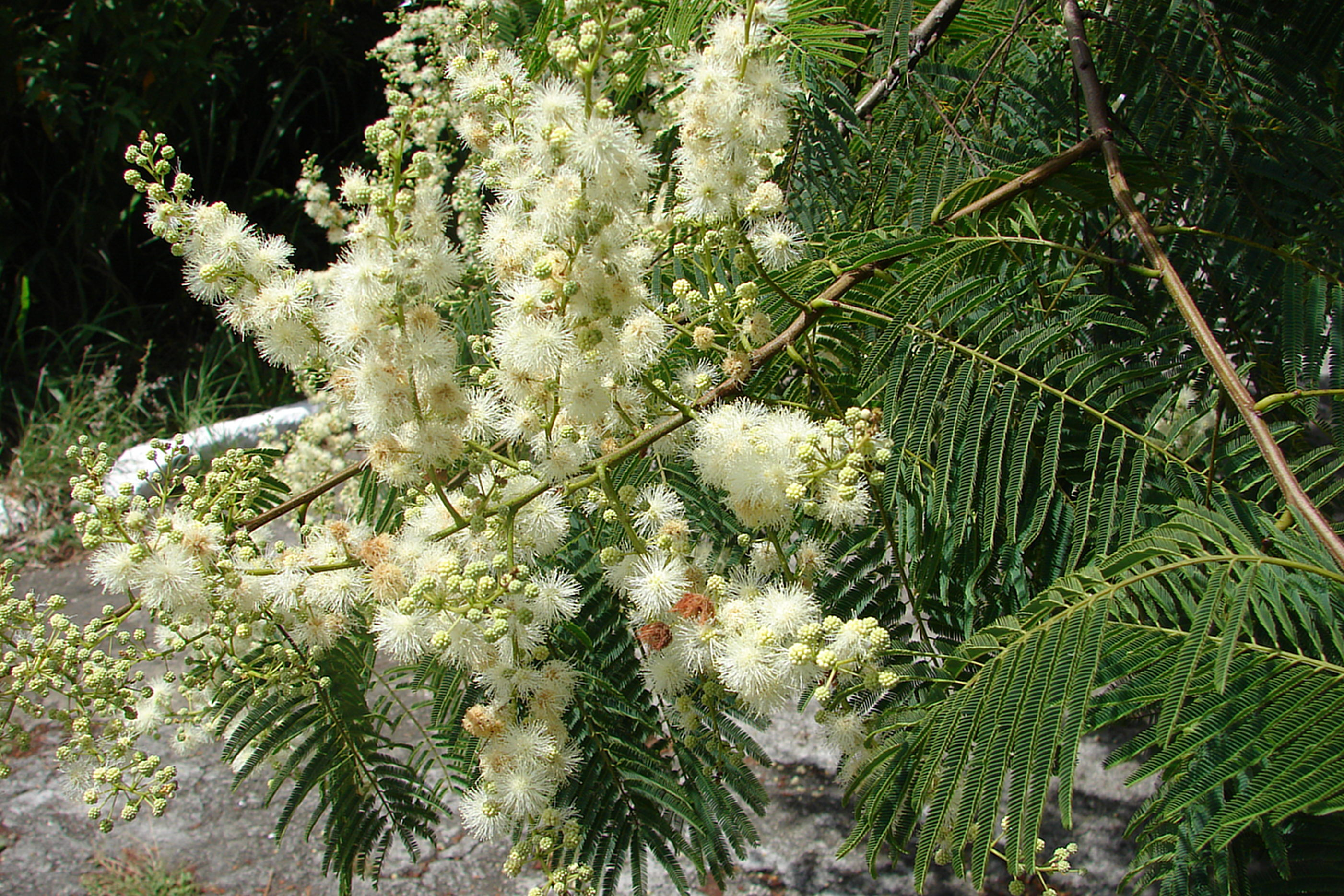 Picture taken in Niterói, Rio de Janeiro, Brazil.